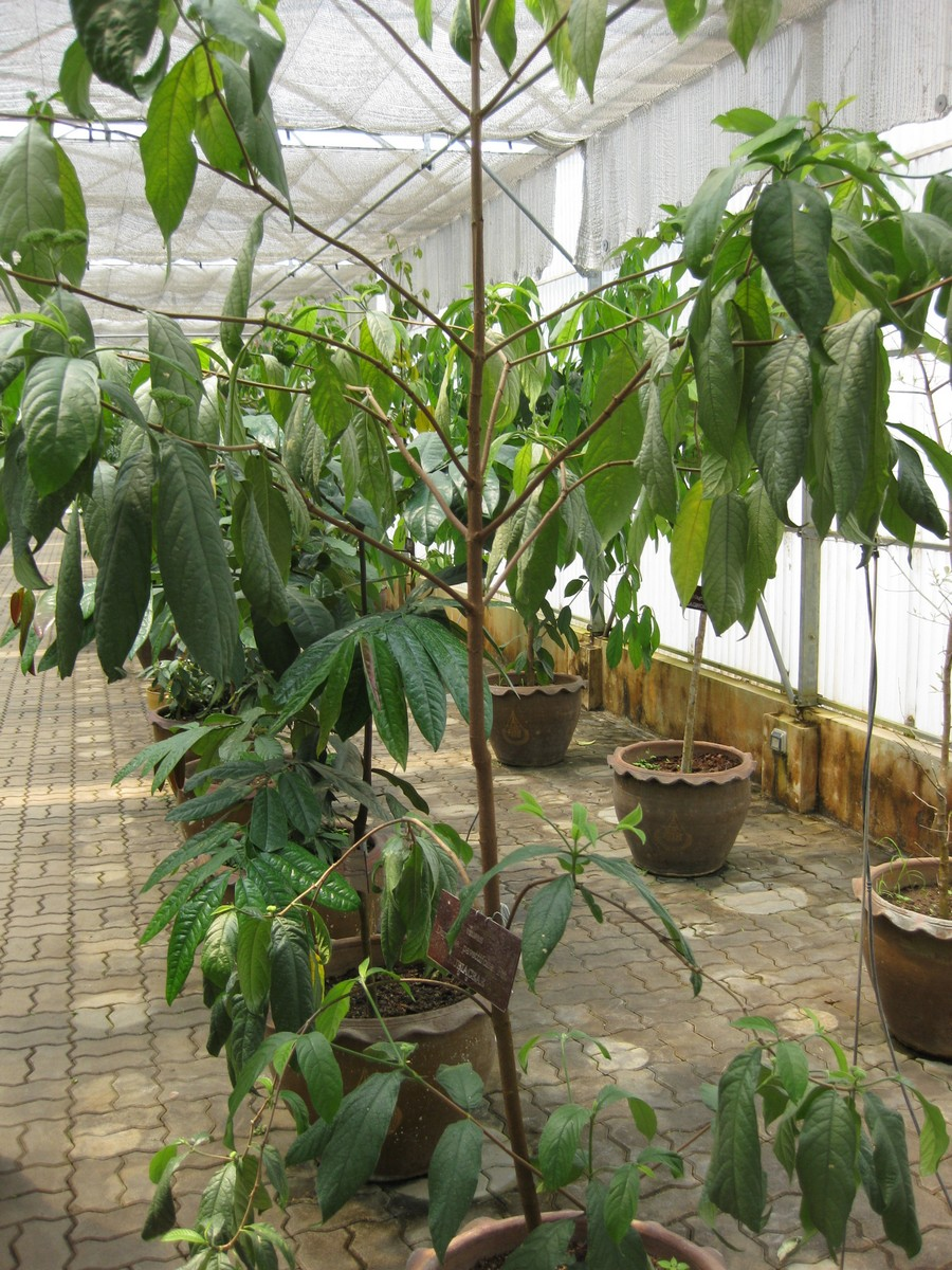 Duperrea pavettifolia (Kurz) Pit. Photographed at the Queen Sirikit Botanic Garden (Chiang Mai Province, Thailand) in March